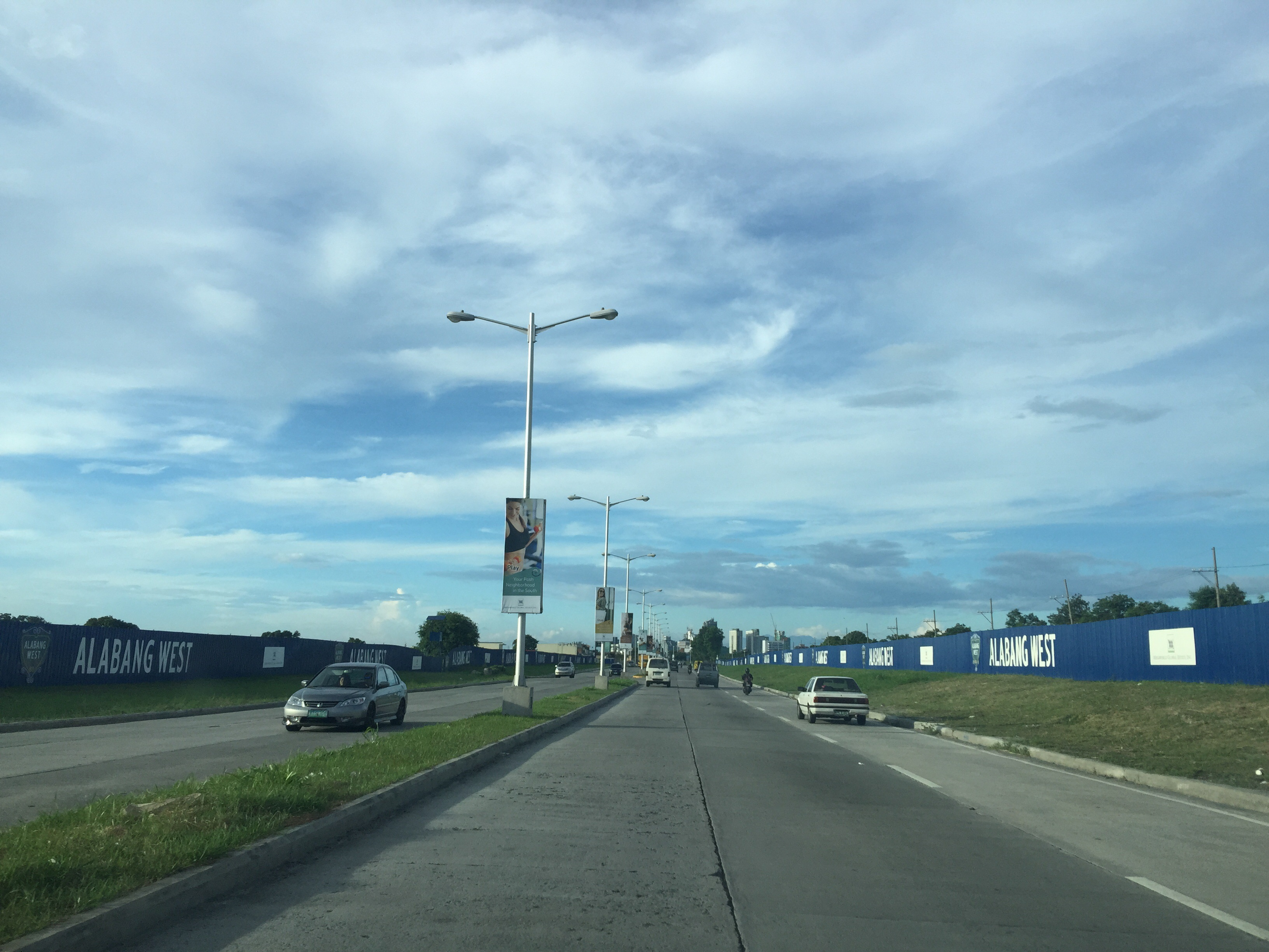 Daang Hari Road, along the Las Piñas–Muntinlupa boundary by the Alabang West mixed-use development in southern Metro Manila, Philippines